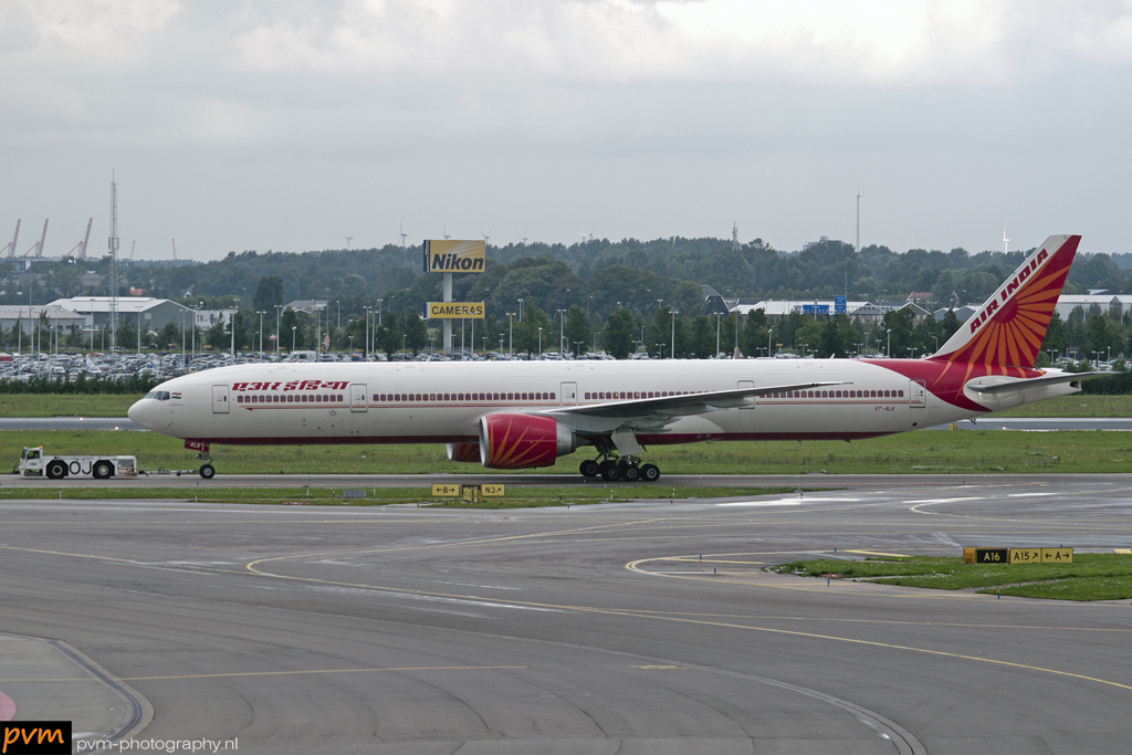 Great visitor at schiphol airport, towed from the maintenance hanger. Boeing 777-337/ER Amsterdam schiphol [AMS / EHAM] 28-08-2010